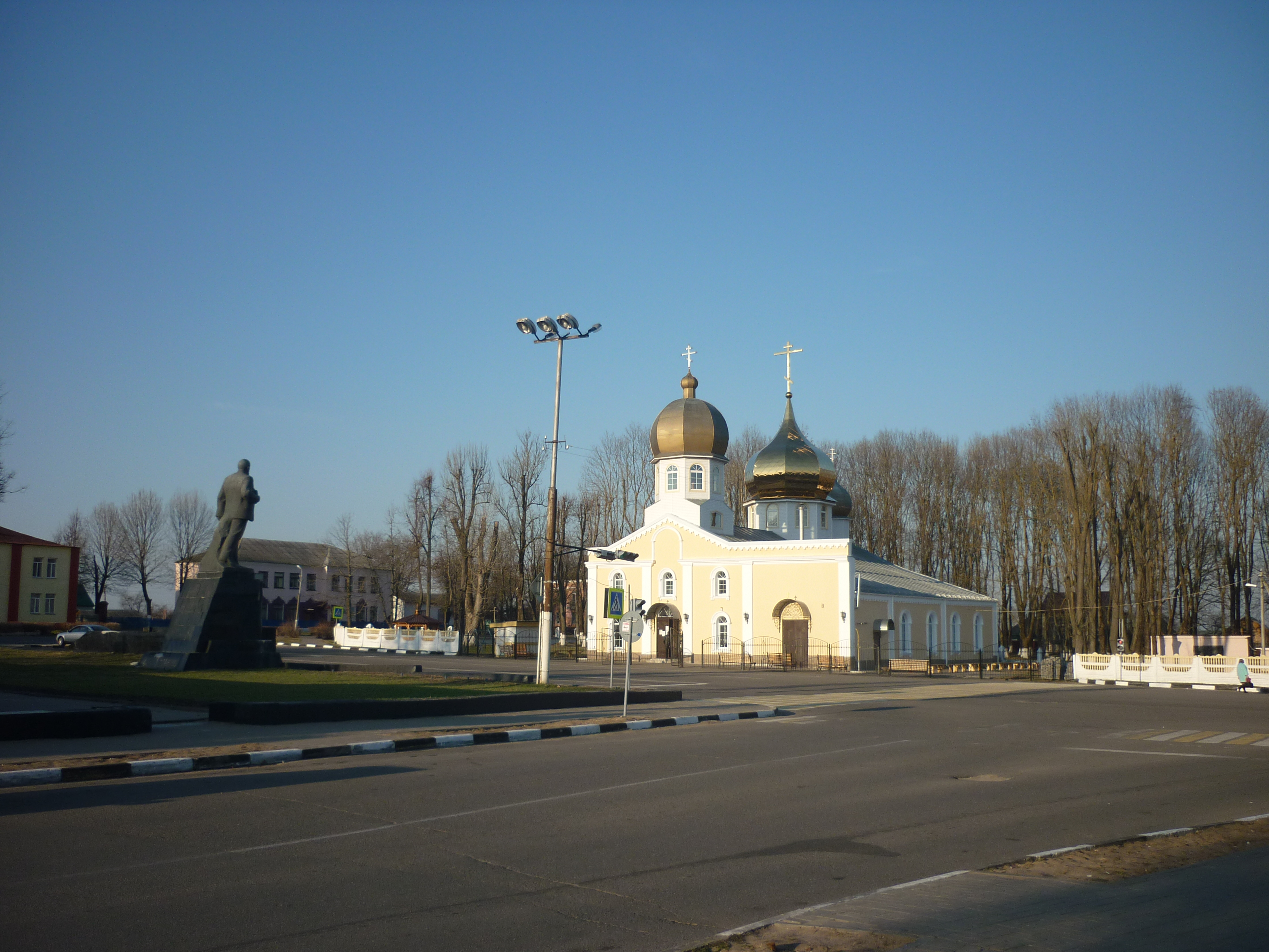 Christ Resurrection church and Lenin in Krichev, Belarus.